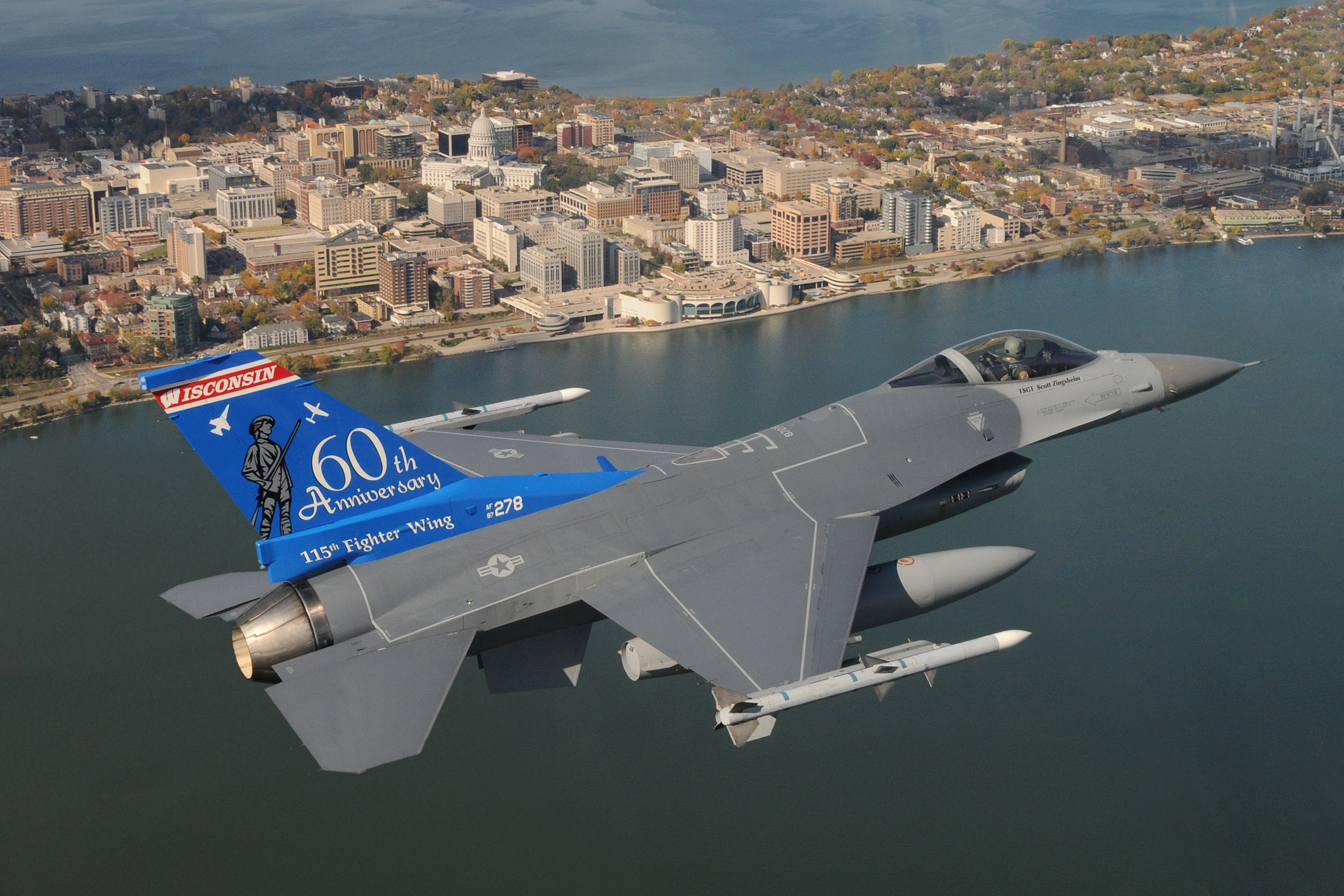 Wisconsin ANG General Dynamics F-16C Block 30H Fighting Falcon jetfighter over Madison